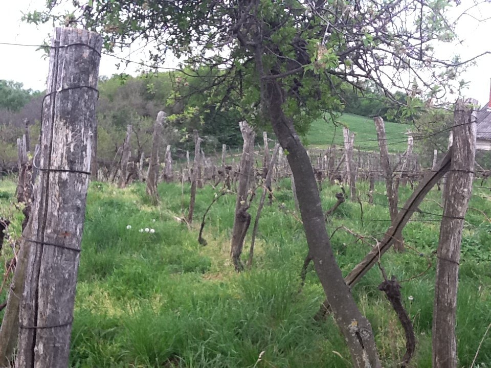 Vine on the Hosszúhetény side of the southern Hungarian mountain Zengő